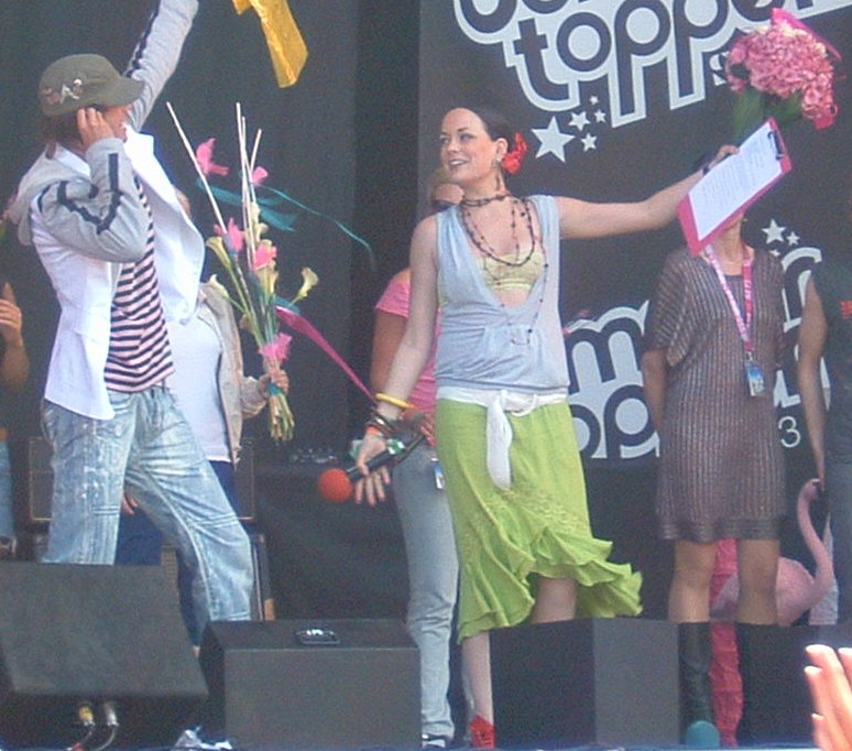 Swedish actress and radio host Sanna Bråding, at Gatufesten in Sundsvall, Sweden. Among the partly obscured people can be found radio host Anton Berg (left front), pop singer-songwriter Robyn (left back) and BWO keyboardist Marina Schiptjenko (right back).